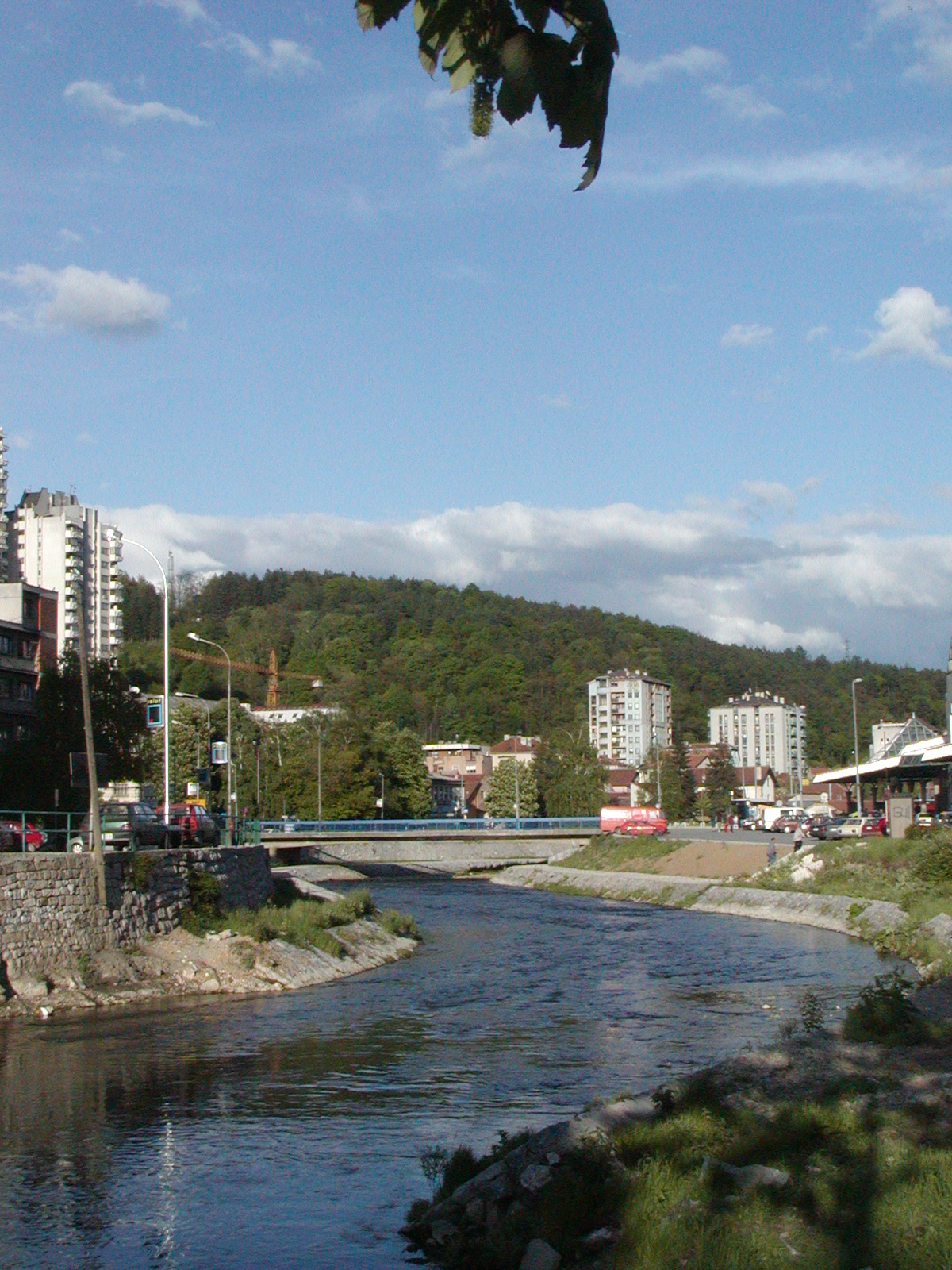 Uzice, Serbia - view from the river